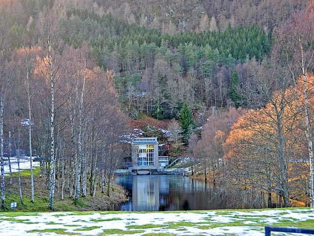 Dalhonzie power station outfow, power station in the background Dalchonzie is a hydroelectric power station generating approx 4MW. Water reaches the station through a tunnel from a weir at the outflow of Loch Earn, and the station operates on a 'head' of around 100 feet